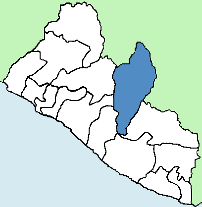 Map showing location of Nimba County in Liberia